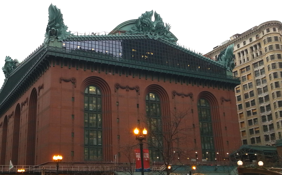 A photo of the Harold Washington library in down town Chicago.